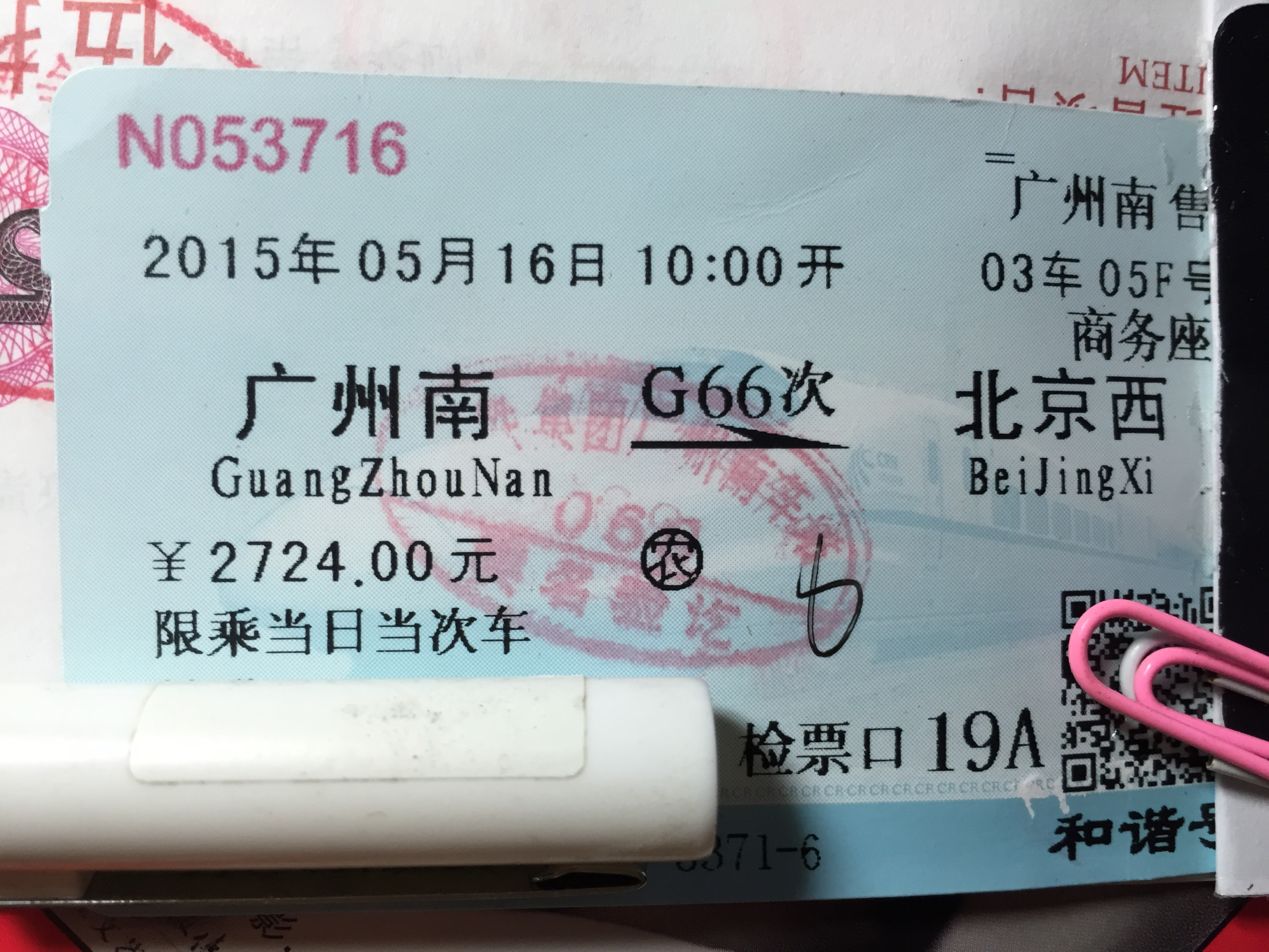 The business class ticket of G66 Guangzhou-Beijing train.